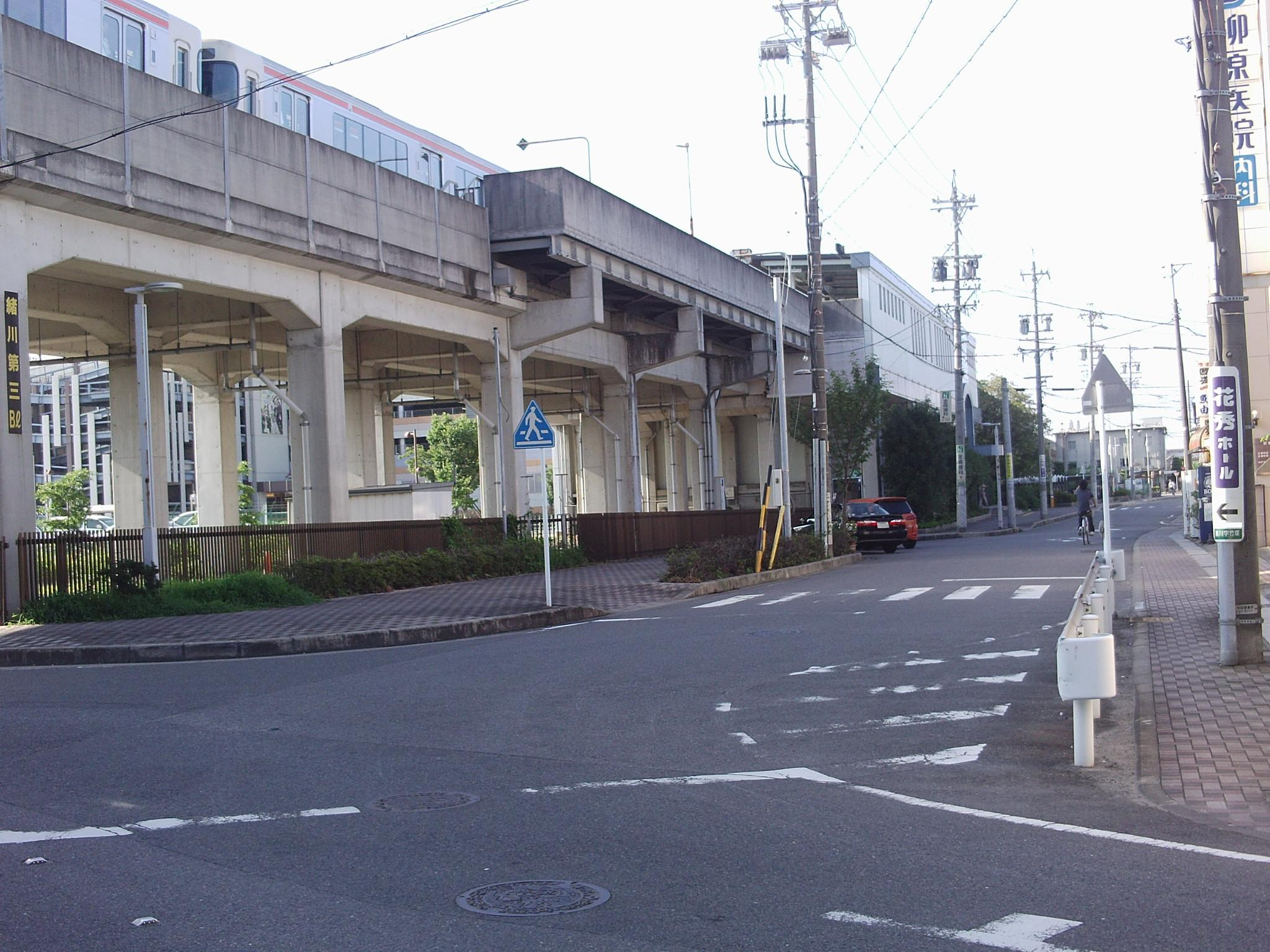 Aichi prefectural road No.514 in Ogawa, Higashiura-cho, Chita-gun, Aichi. Starting point, Ogawa station.